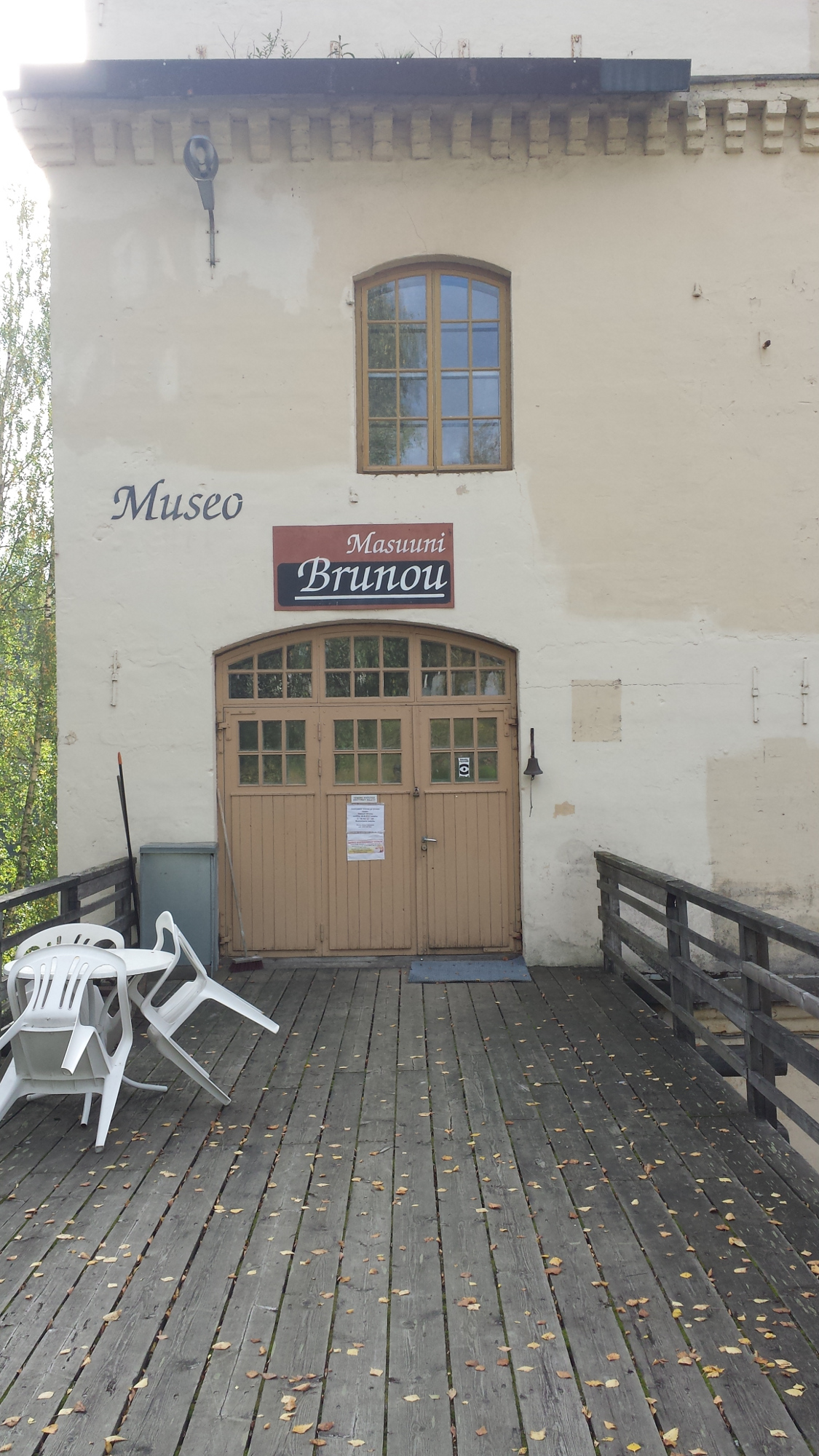 Main entrance of Museum Masuuni Brunou building located in Juankoski, Kuopio, Finland i.e. Juankoski factory and workers museum. Finnish word masuuni means blast furnace.